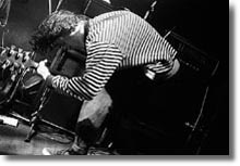 Samiam in concert.